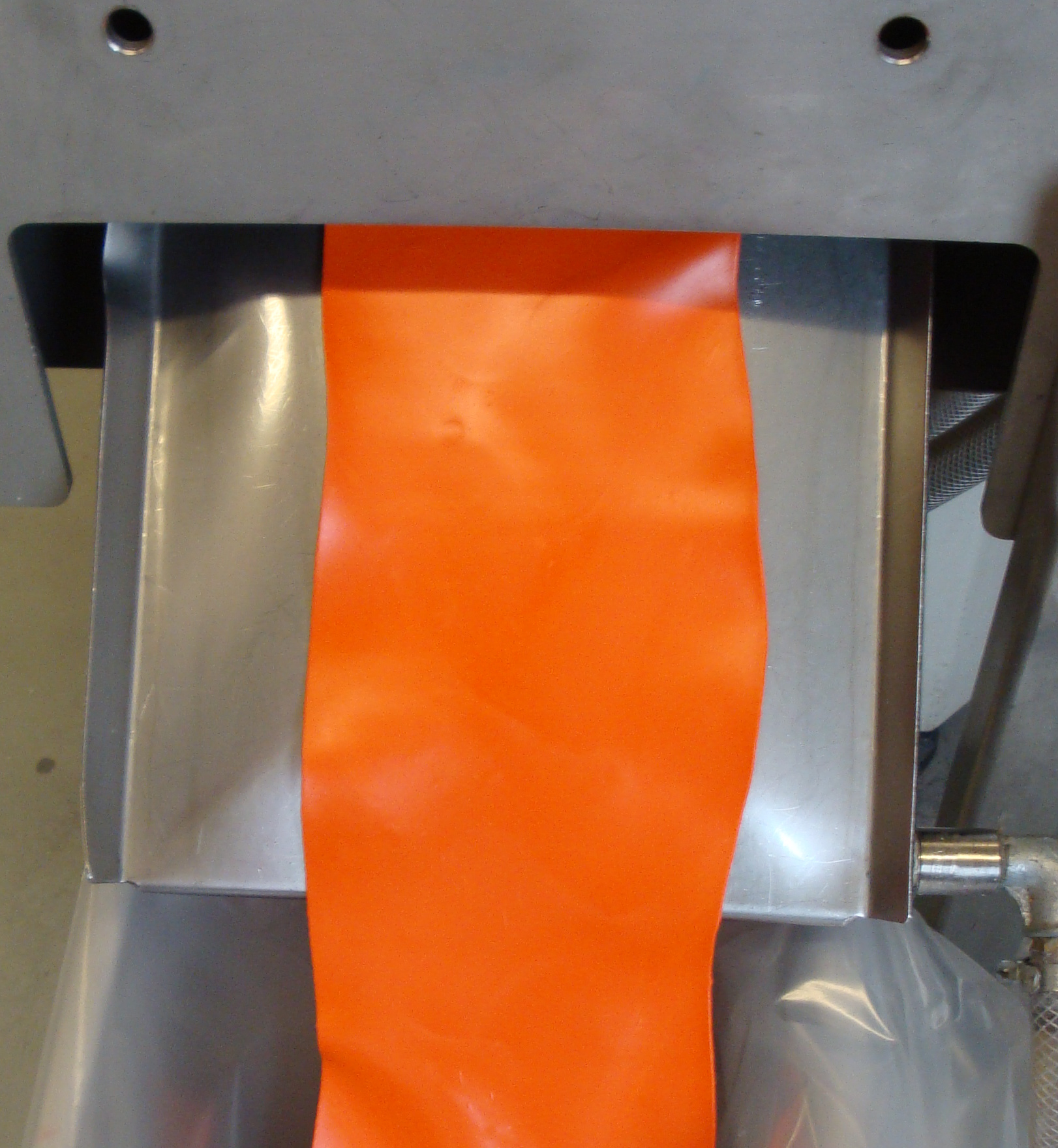 Powder coating after leaving the cooling device